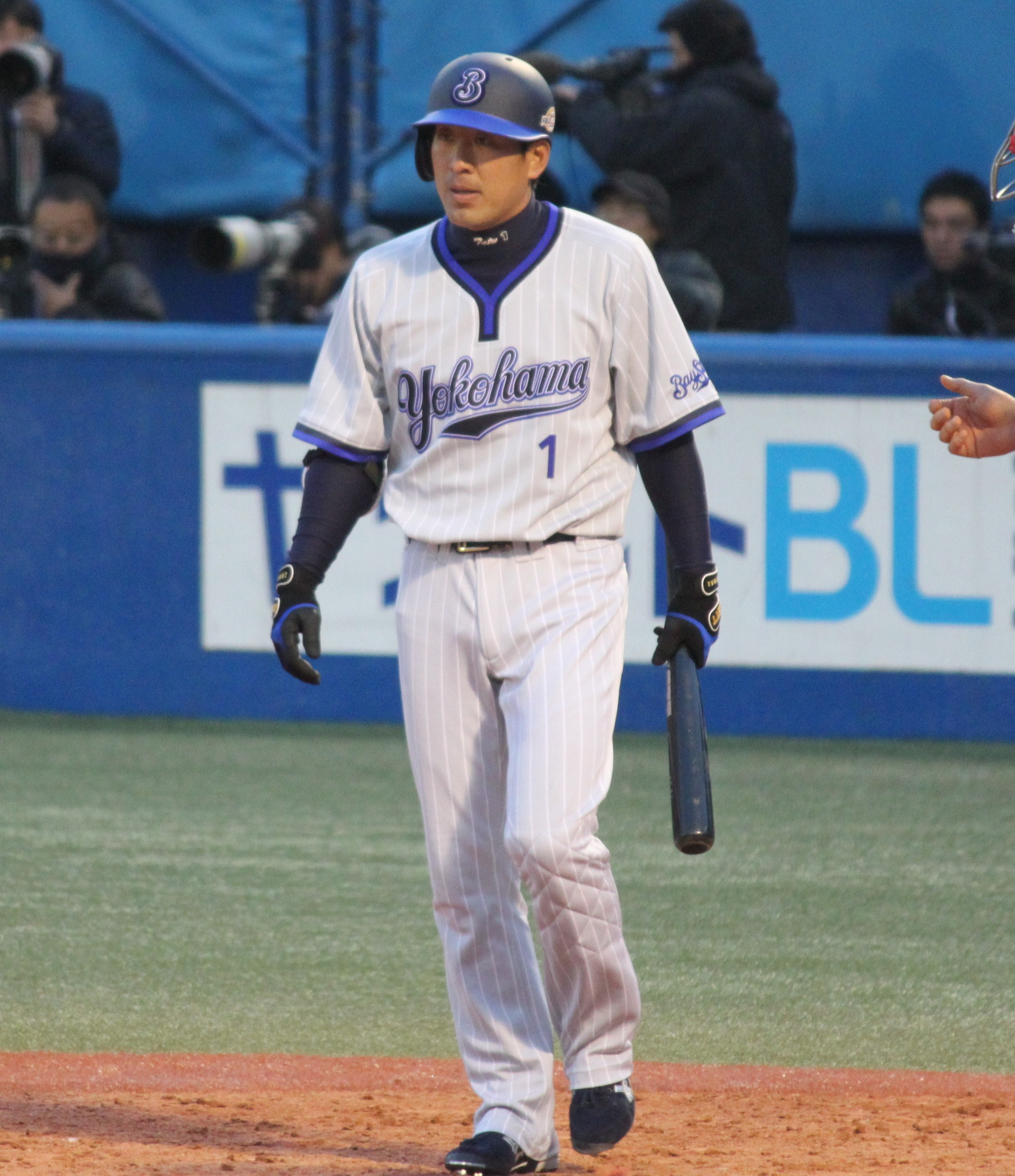 Tatsuhiko Kinjoh, outfielder of the Yokohama BayStars, at Meiji Jingu Stadium.